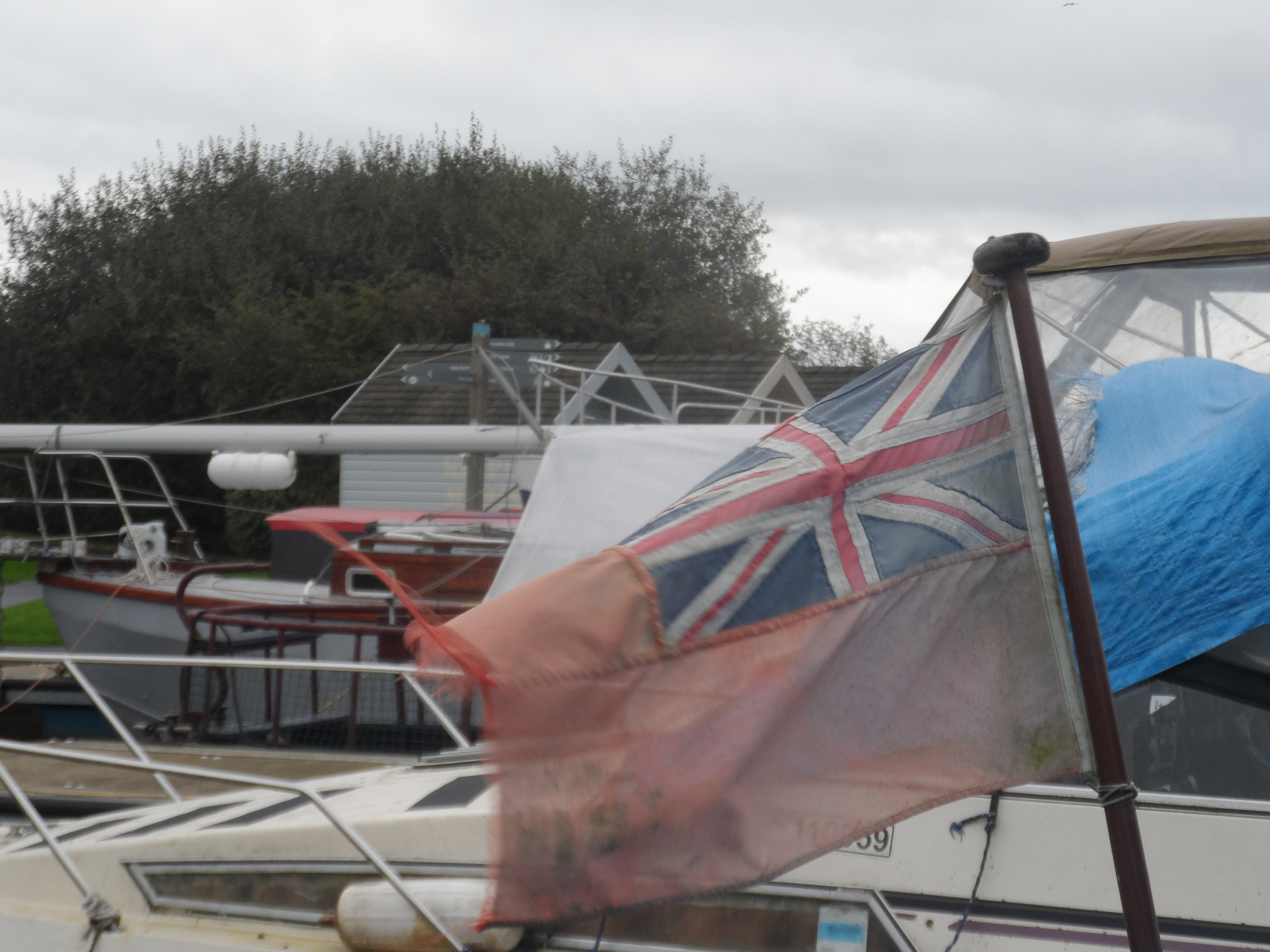 Red Ensign ragged